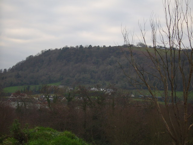 Carnmoney Hill Eastern slope of Carnmoney Hill viewed from Monkstown.